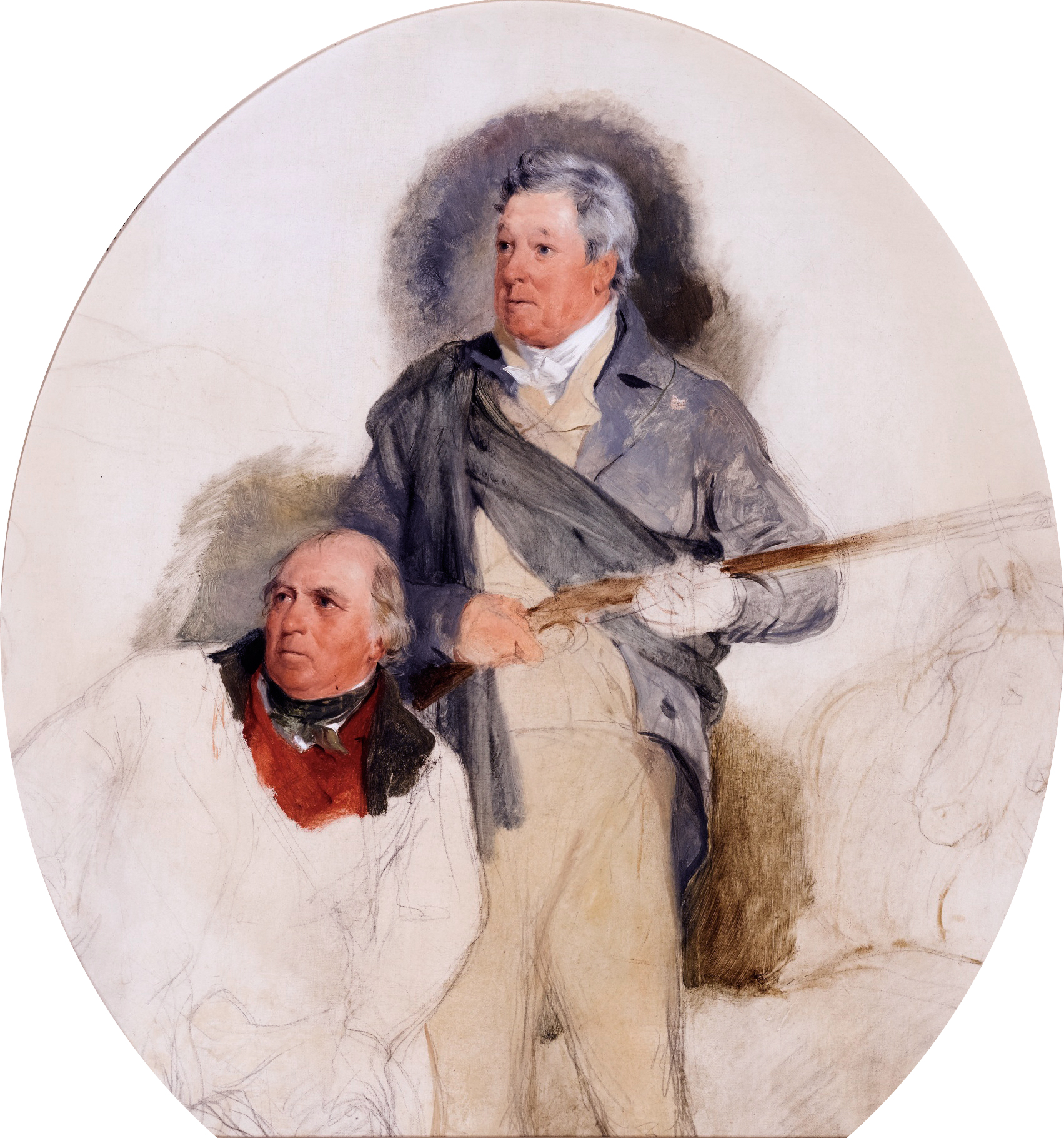 The 4th Duke of Atholl and his game keeper John Crerar study for "Death of the Stag in Glen Tilt" oil over pencil on prepared paper laid on canvas 53 x 49 cm before 1830